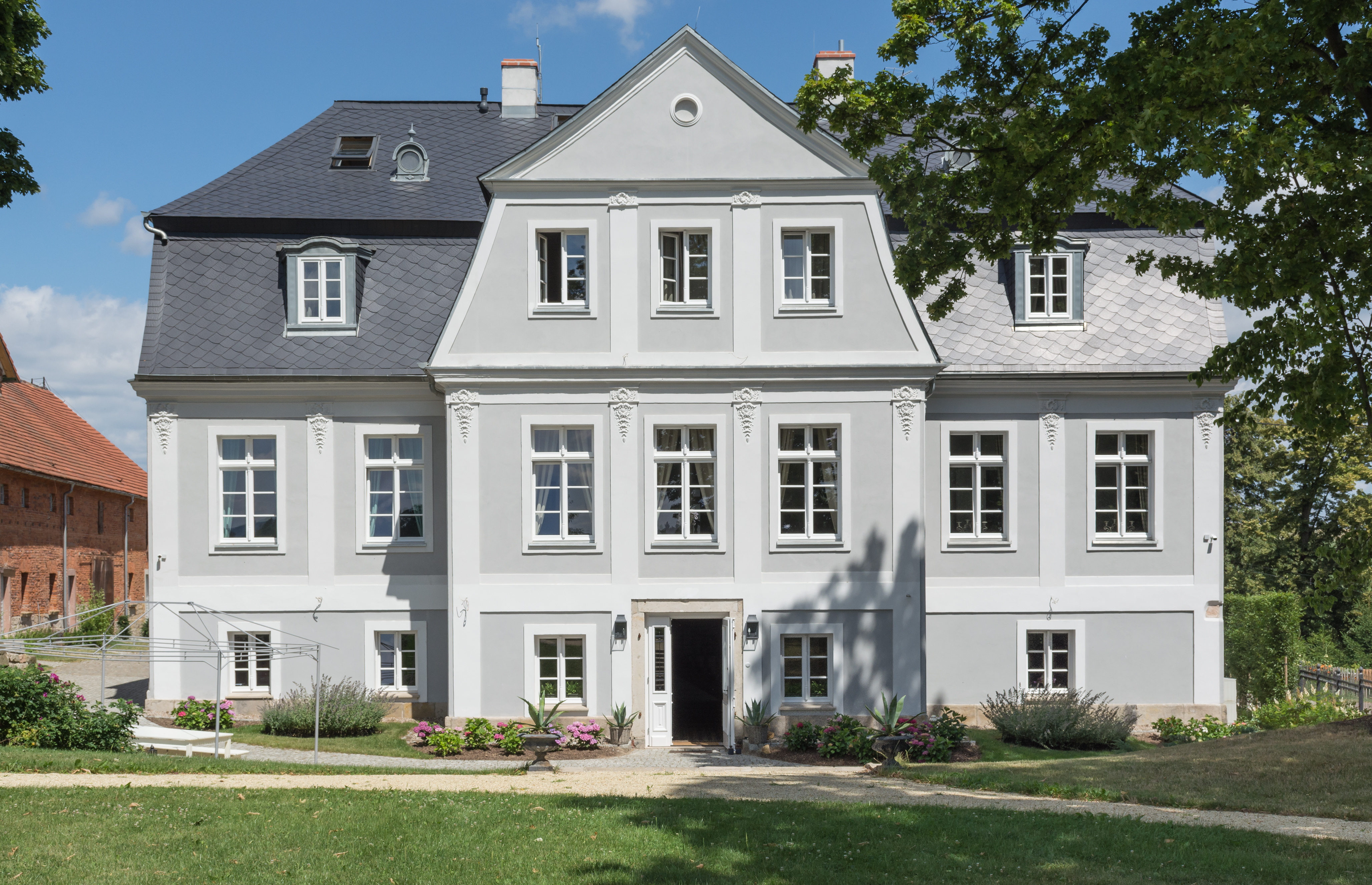 Palace in Kamieniec